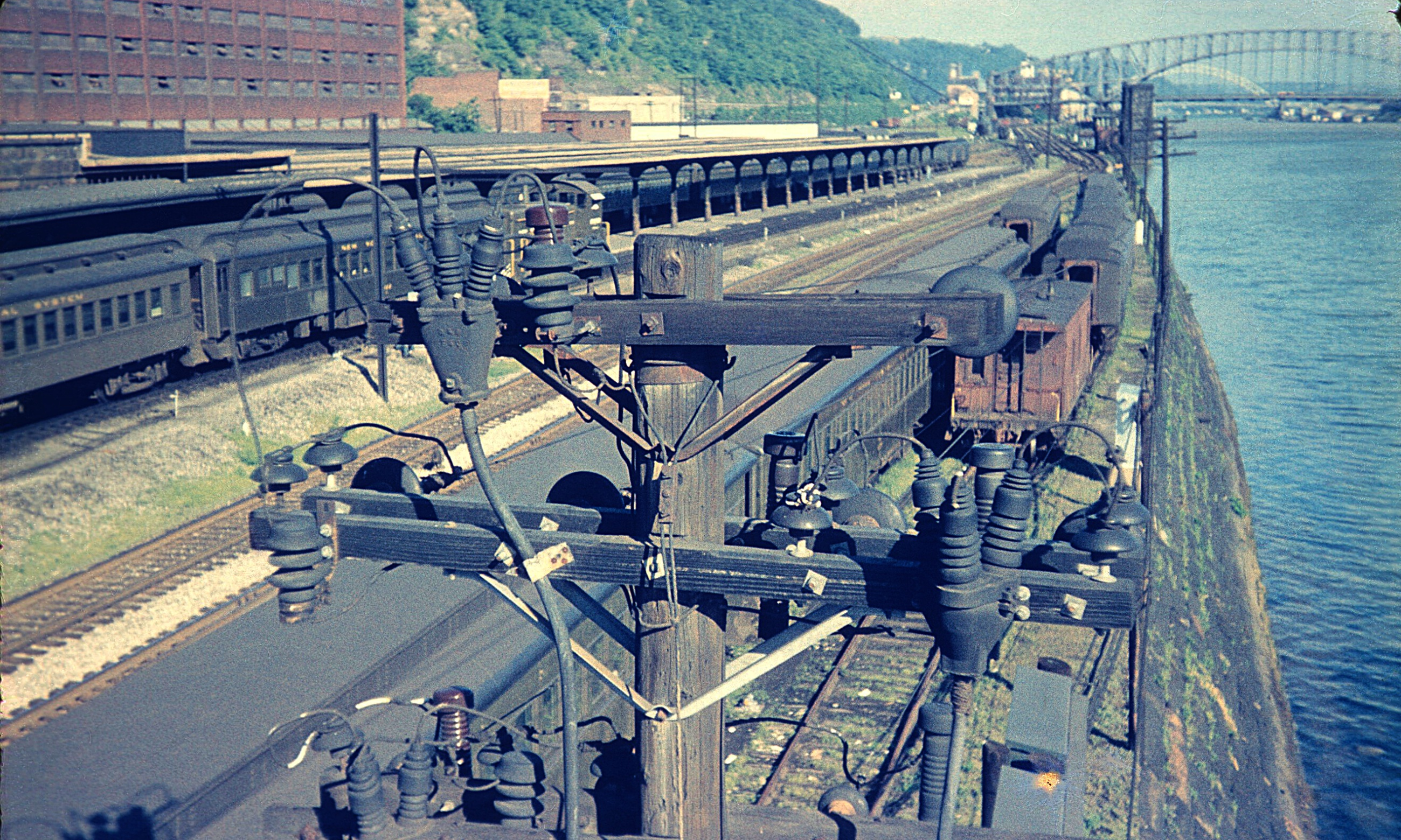 This photo was taken from the Smithfield Street Bridge looking west about 1951. It shows the heavily industrialized Pittsburgh of the early 1950's and the Pittsburgh & Lake Erie Railroad Station prior to the construction of the Station Square complex. The Point Bridge II (demolished 1970 and replaced by the Fort Pitt Bridge) and the Duquesne incline are seen in the distance. Photo taken by John V. Mullen (1898-1966)